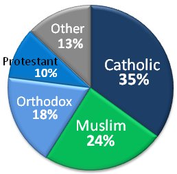 Religious affiliations of Arab Americans, based on the Zogby International Institute Survey 2002 [1]